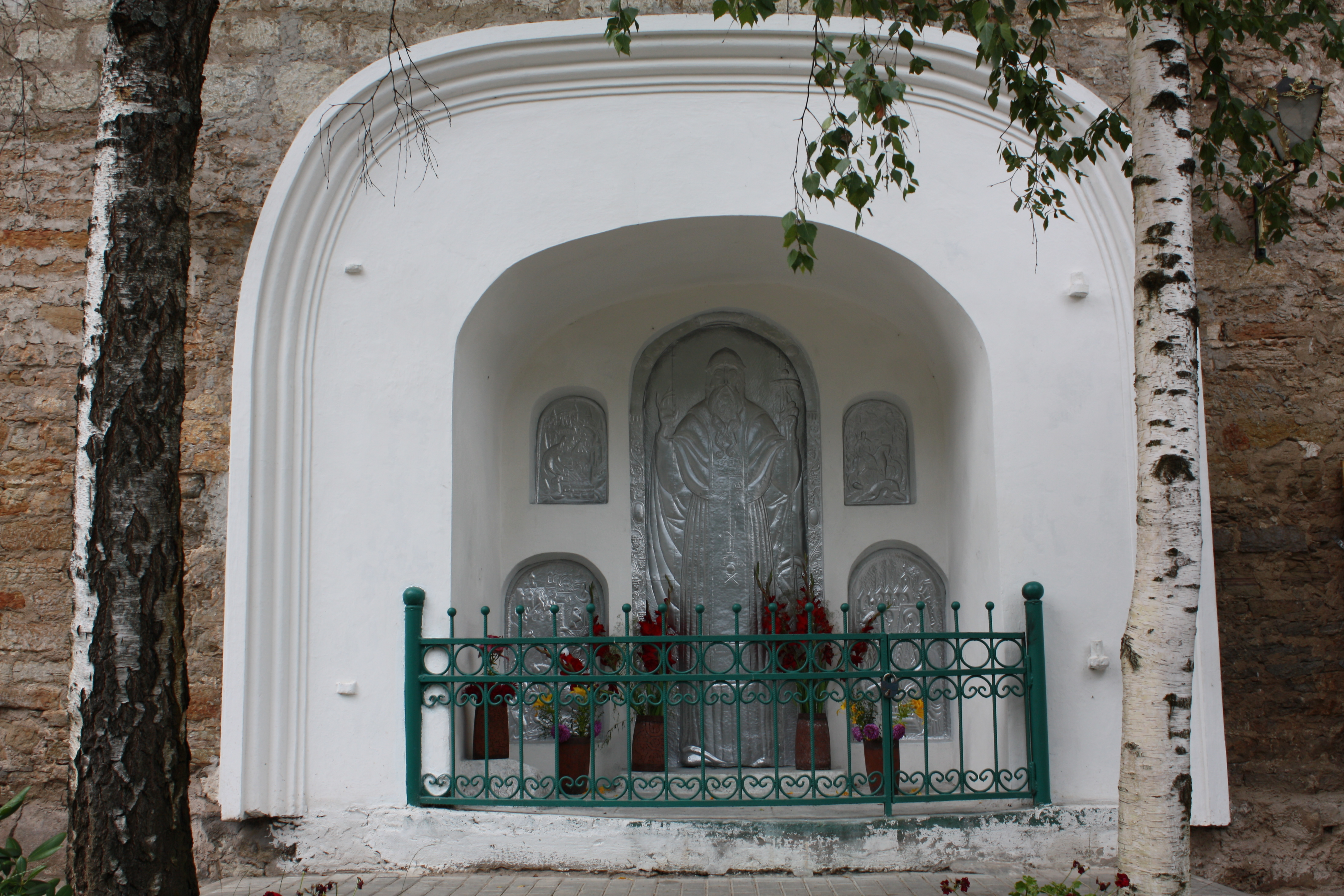 St. Kornelius of Pskov